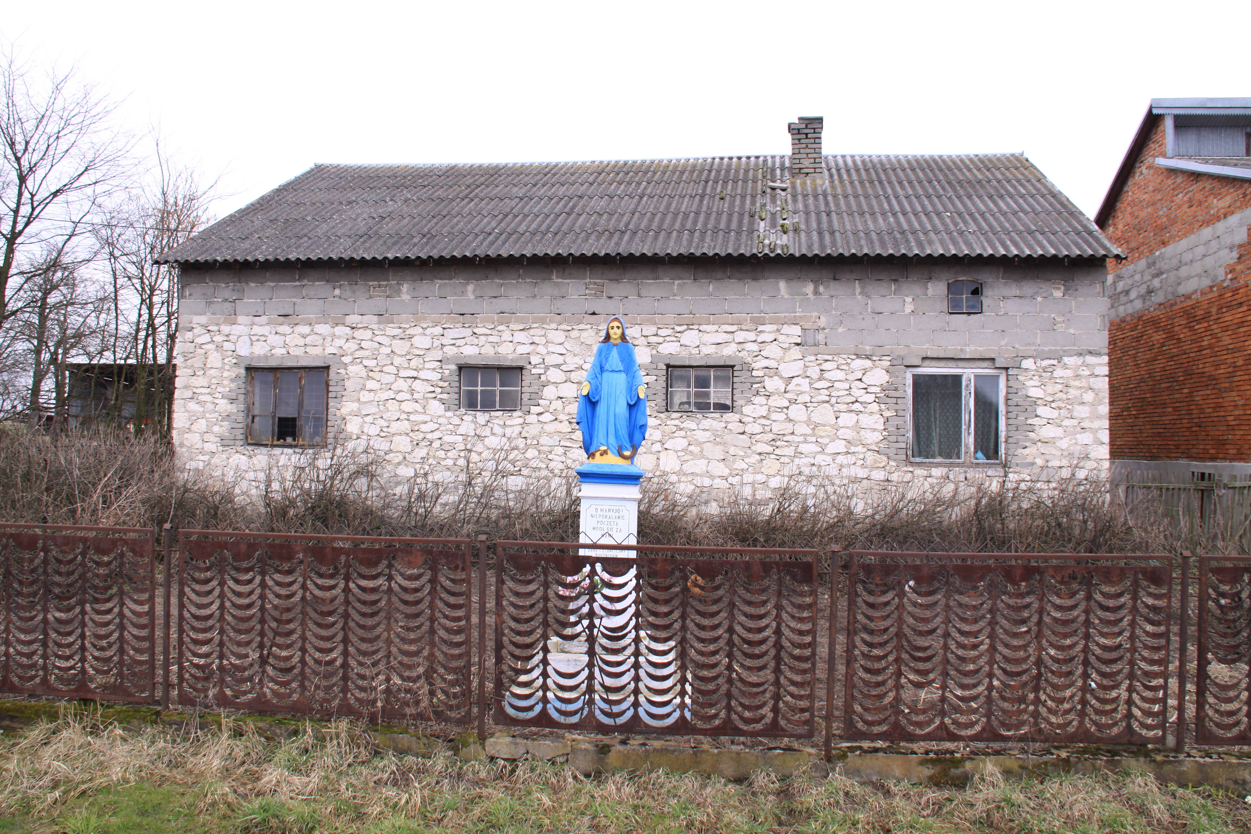 Las Winiarski, the figure of Blessed Maria Virgin